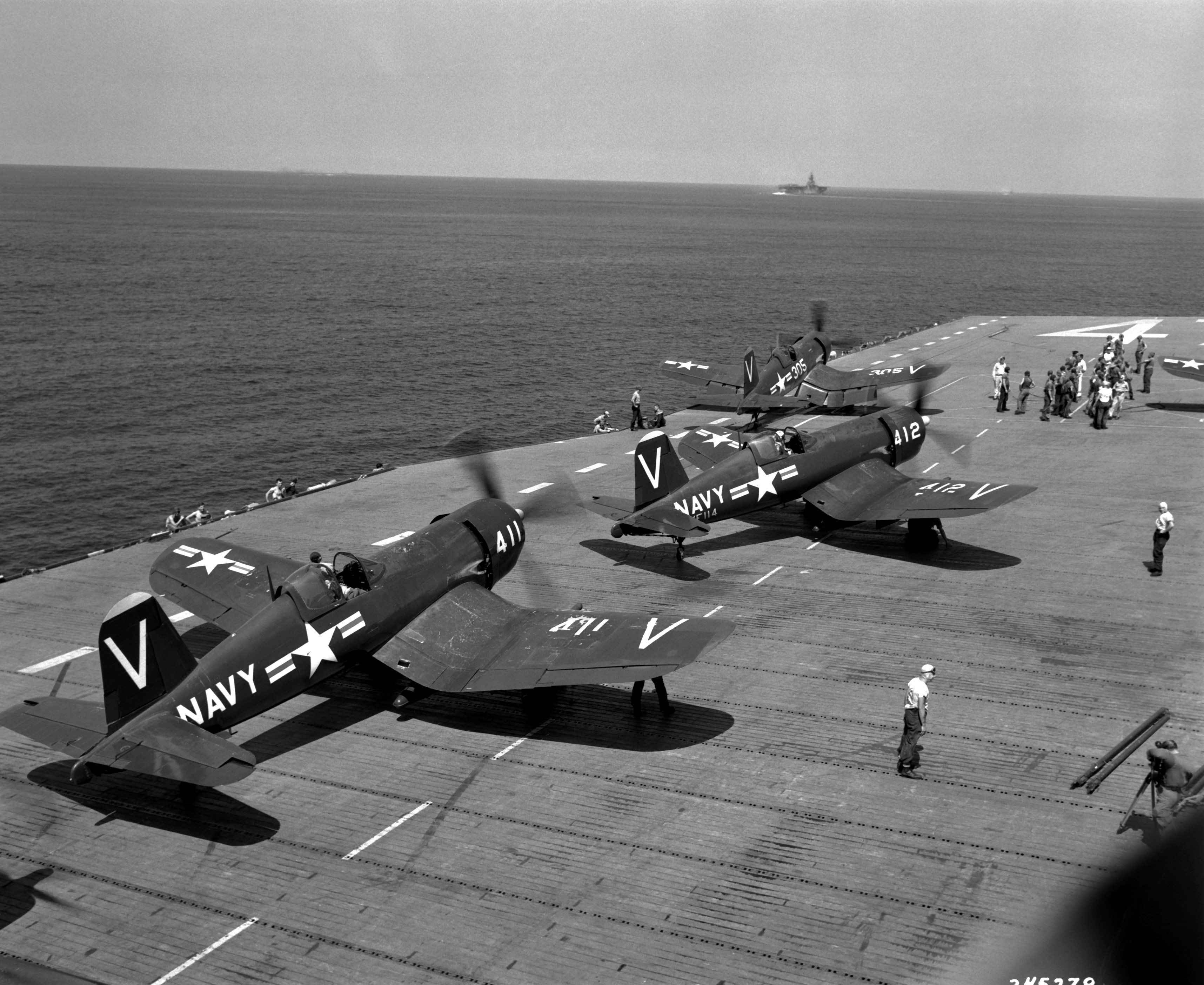 Vought F4U-4 Corsair fighters of U.S. Navy fighter squadrons VF-114 Executioners (V-4XX) and VF-113 Stingers (V-3XX, on the catapult), assigned to Carrier Air Group 11 (CVG-11), on the aircraft carrier USS Philippine Sea (CV-47) during the Korean War in 1951/52. Another Essex-class carrier of Task Force 77 is visible in the background.